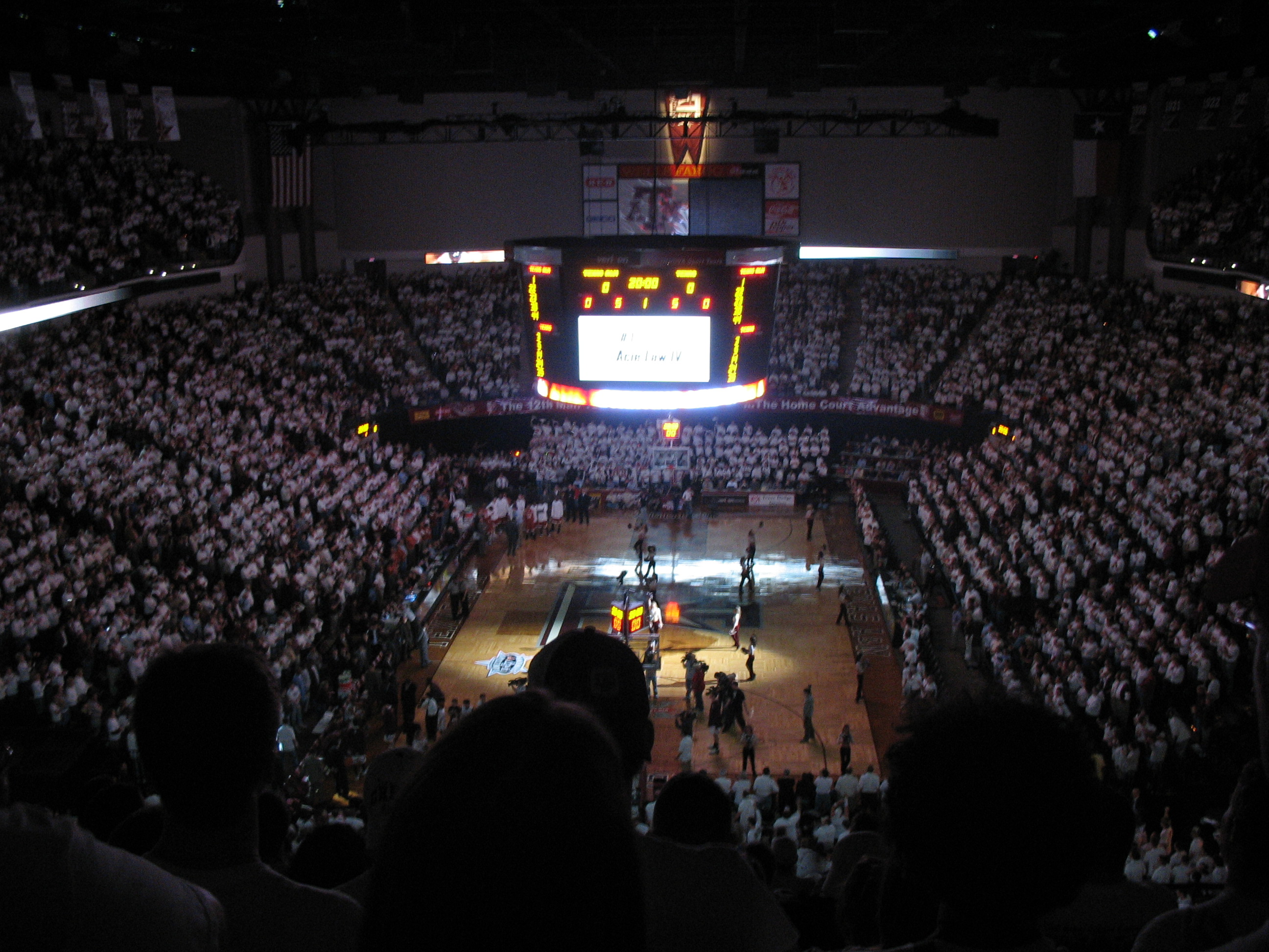 Texas A&M versus University of Texas Lone Star Showdown match-up at Reed Arena